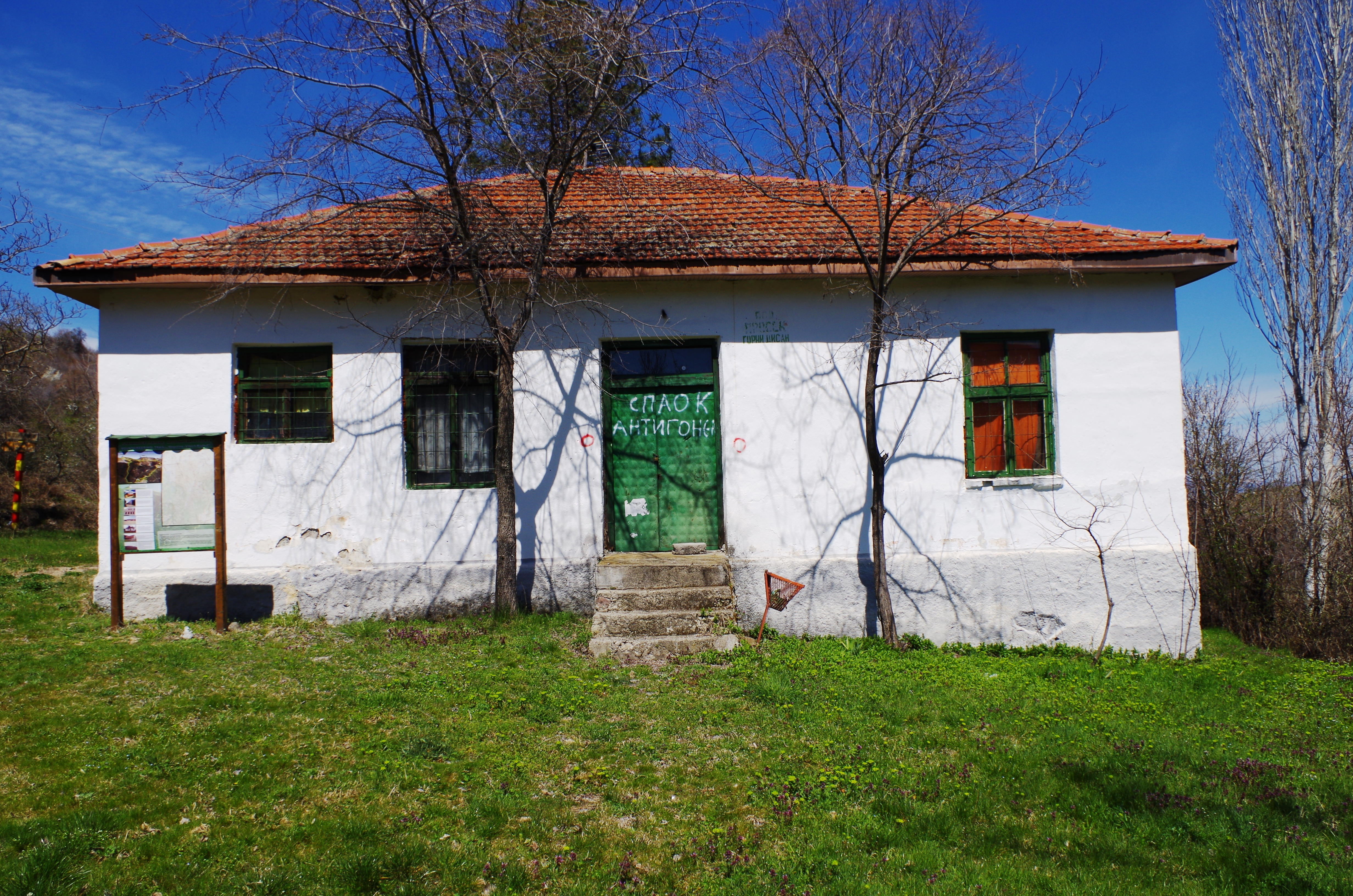 Old primary school in the village Gorni Disan